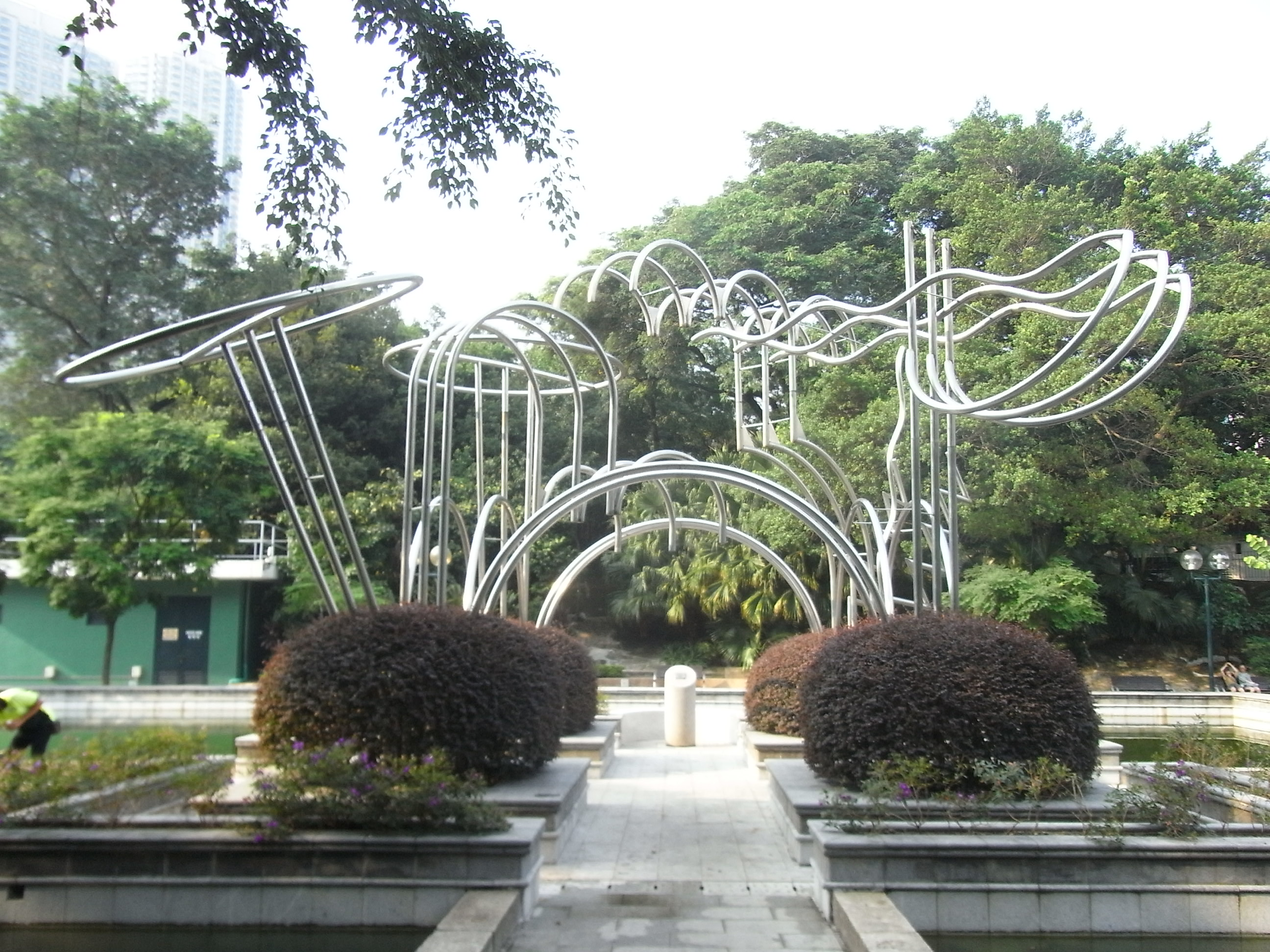 九龍公園, Kowloon Park, Tsim Sha Tsui, Hong Kong